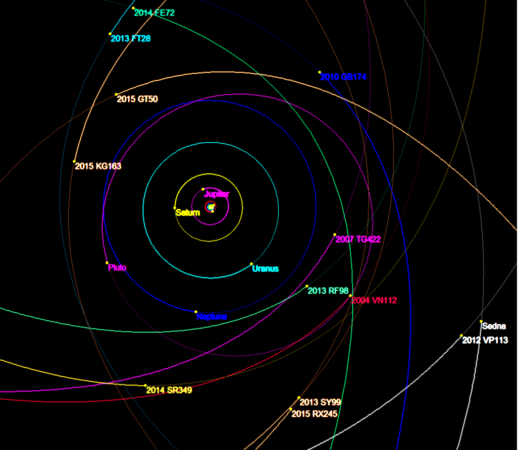 Extreme trans-Neptunian objects, 9 objects plus 4 new ones in orange